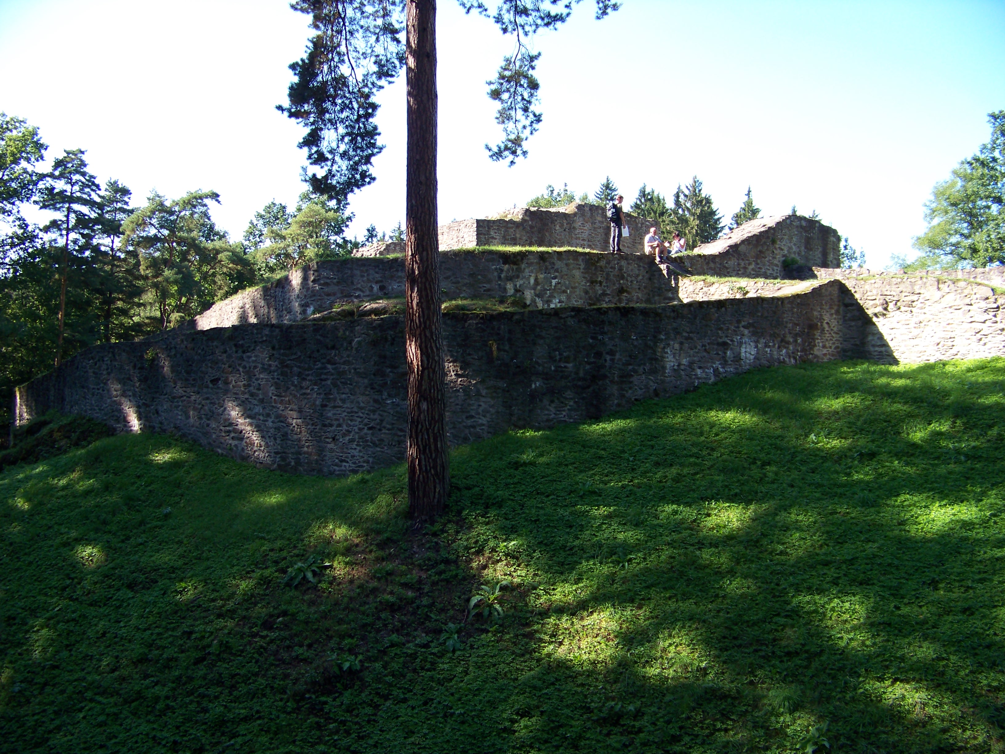 Sezimovo Ústí, Tábor District, South Bohemian Region, the Czech Republic. Kozí Hrádek. - OpenStreetMap(Info)